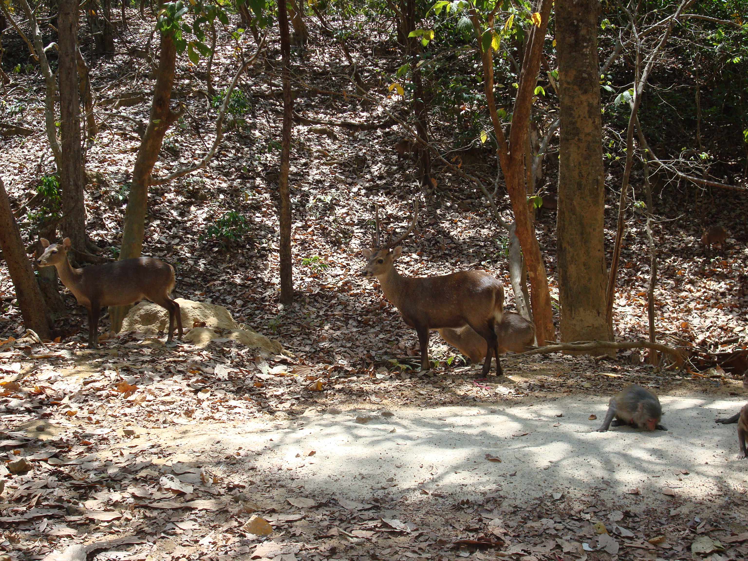 Deers and Monkeys Freely Roaming in Hlawga Park Yangon မြန်မာဘာသာ: လှော်ကားသဘာဝဥယျာဉ် တွင်းမှ ဒရယ် နှင့် မျောက် များ။